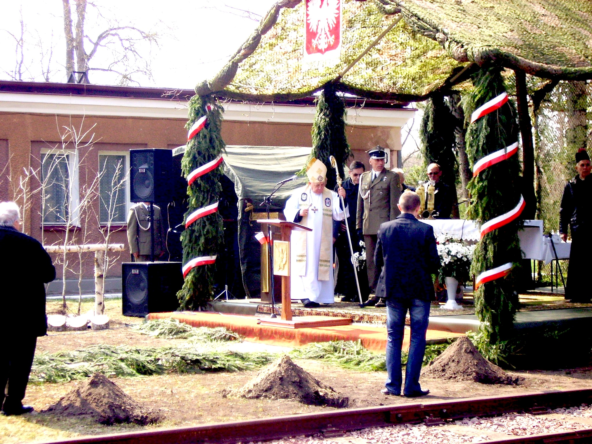 Osowiec-Twierdza. The ceremony connected with the unveiling of the Monument to Katyn massacre